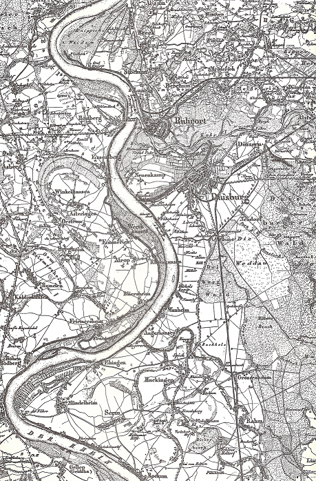 Topographic Map of Rhineland and Westphalia, foil Crefeld, extract, Duisburg and Ruhrort (Germany)